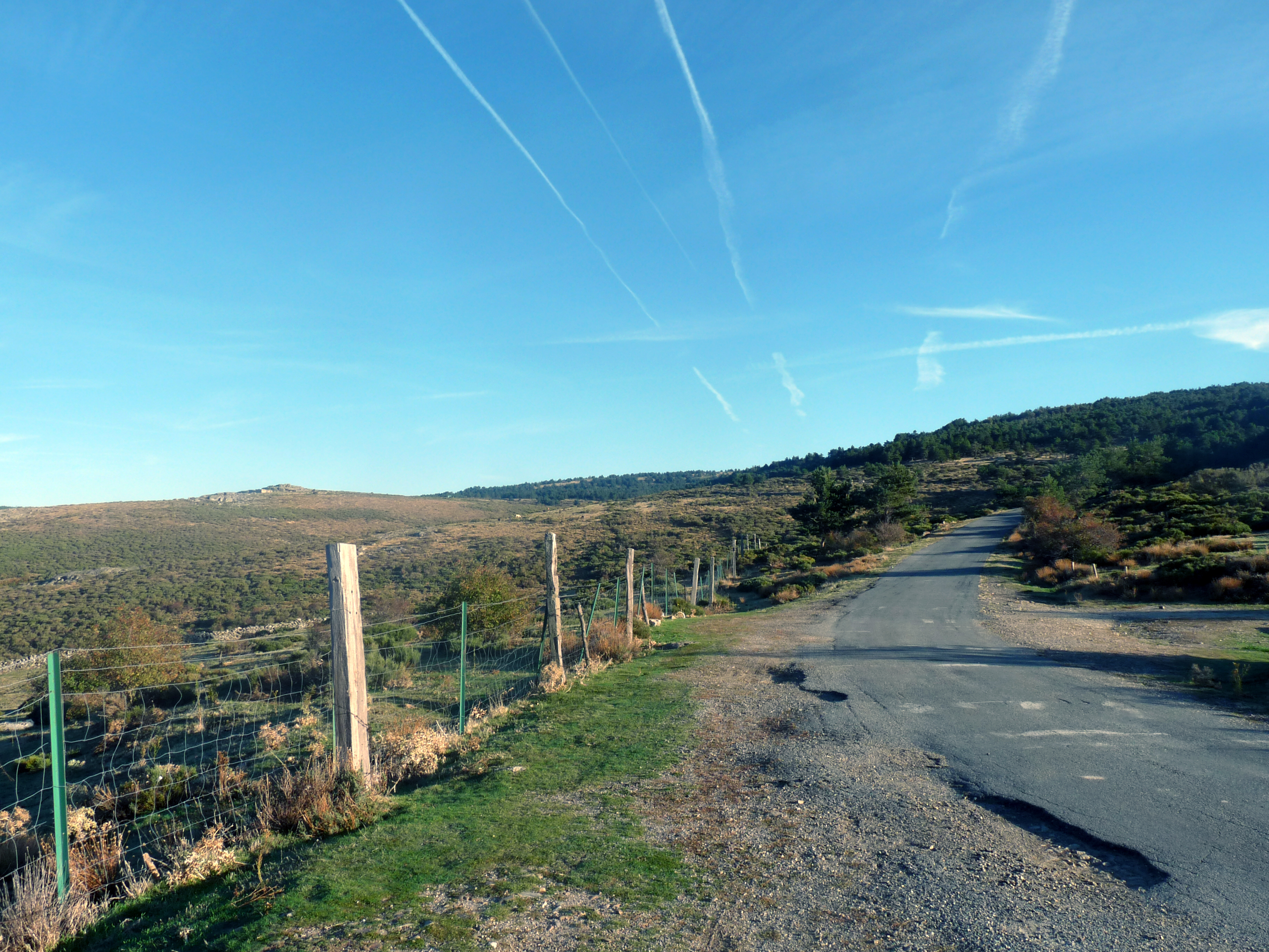 Mountain Pass of Malagón, Community of Madrid, Spain.